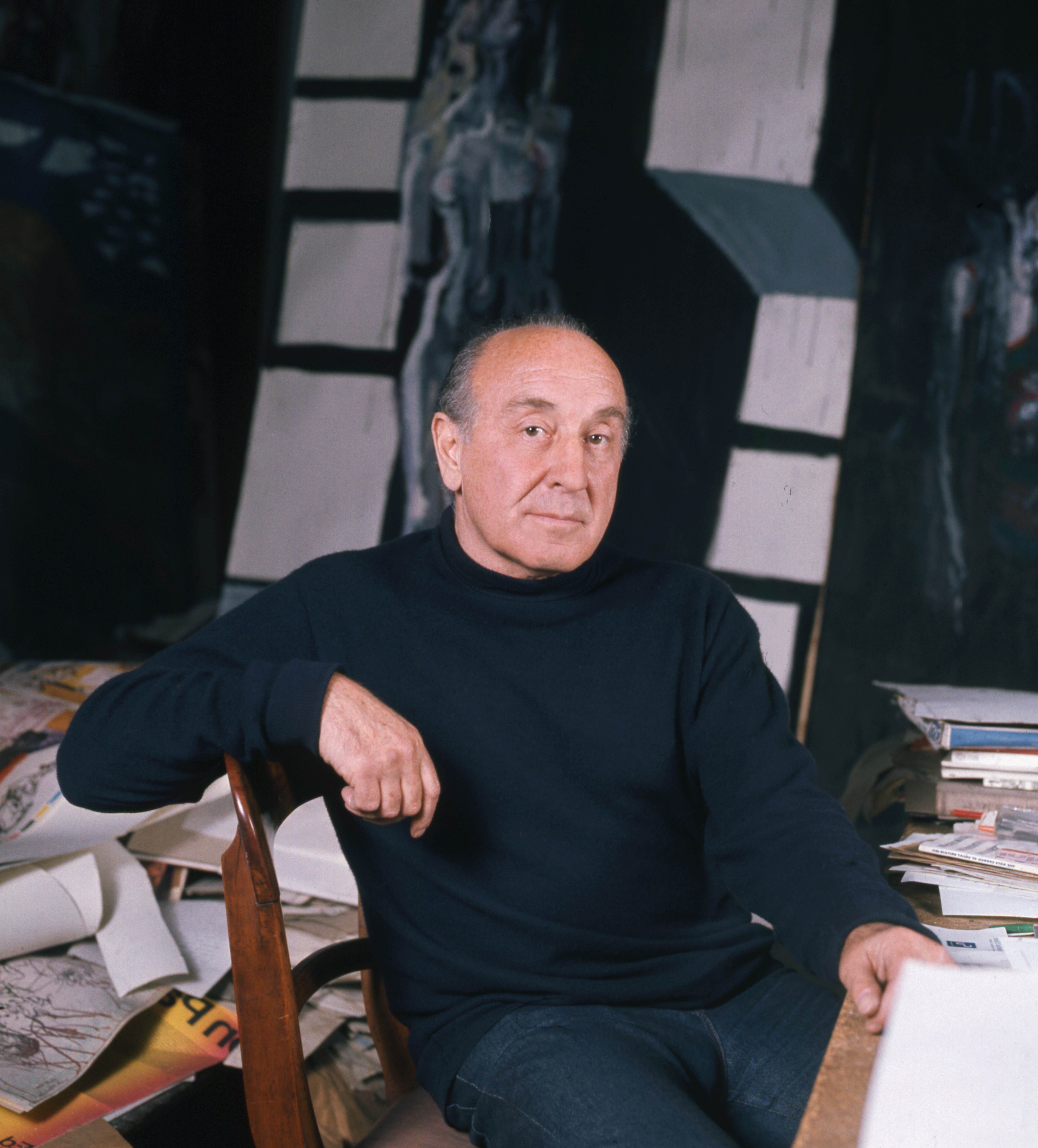 Sir Feliks (Felix) Topolski in his studio at Waterloo, London.